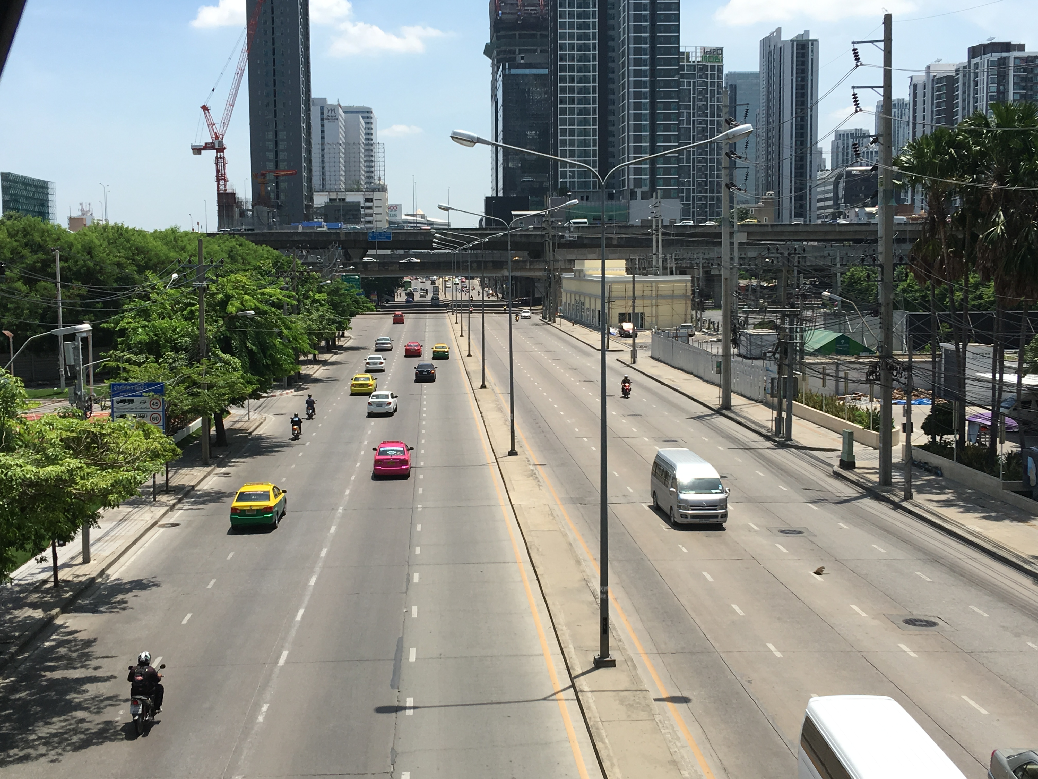 Asok-Din Daeng Road in Ratchathewi District, Bangkok 18 July 2016